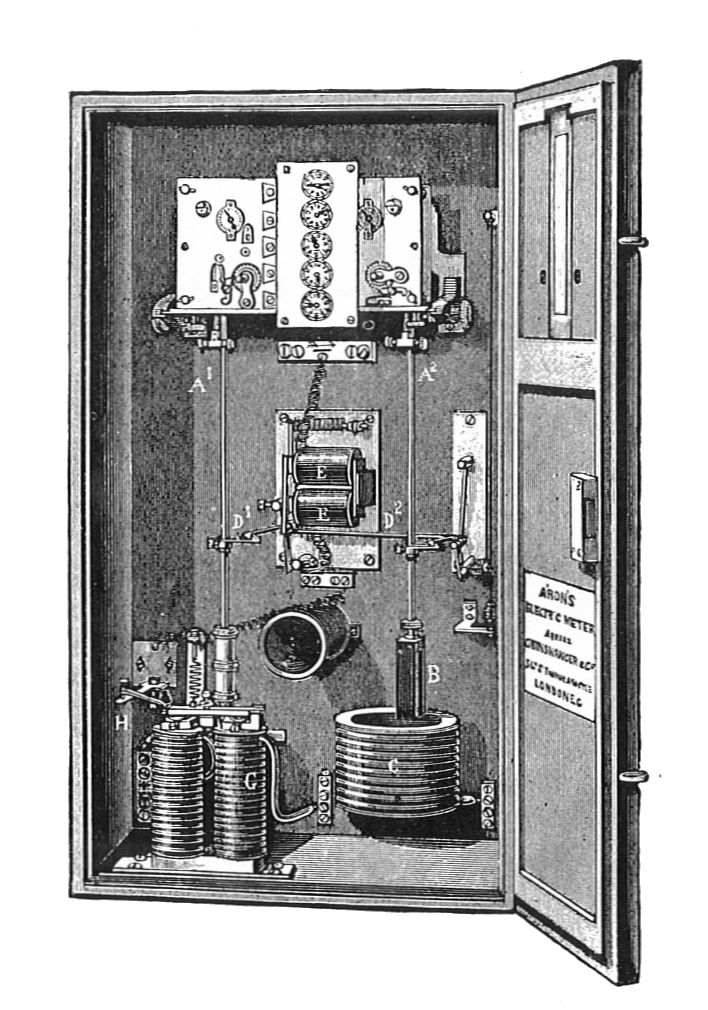 Dr Aron's electricity meter of 1888 The first commercial electricity meter introduced to England. (p. 31) It was the invention of the German Dr Hermann Aron and was made and sold in the UK by Hugo Hirst of GEC.